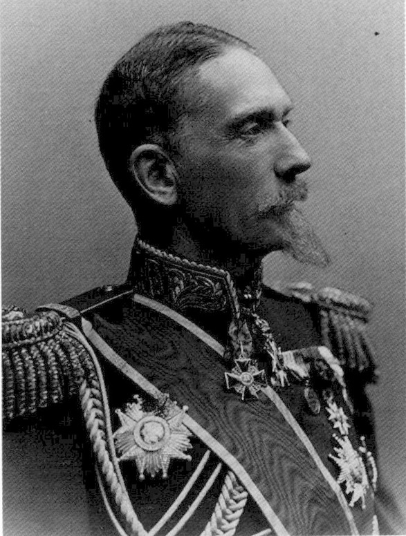 Axel Emil Rappe (1838–1918) a Swedish free lord and military officer.